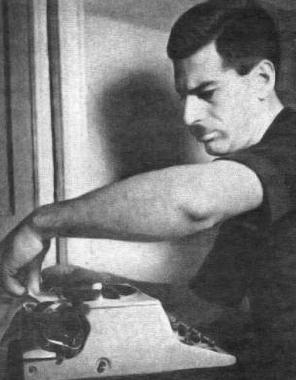 Italian writer Elio Vittorini (1908–66)